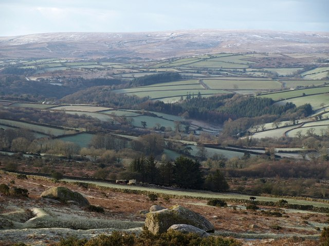 View SW from Bonehill Down In the foreground is the B3387 running between low banks as it drops towards Widecombe. Beyond is a view across side valleys down towards the wooded East Webburn valley (in SX7174) below Cockingford. In the middle left distance is Leusdon Common (SX7073), and beyond this, across the invisible Dart valley, are Holne Moor and Ryder's Hill.